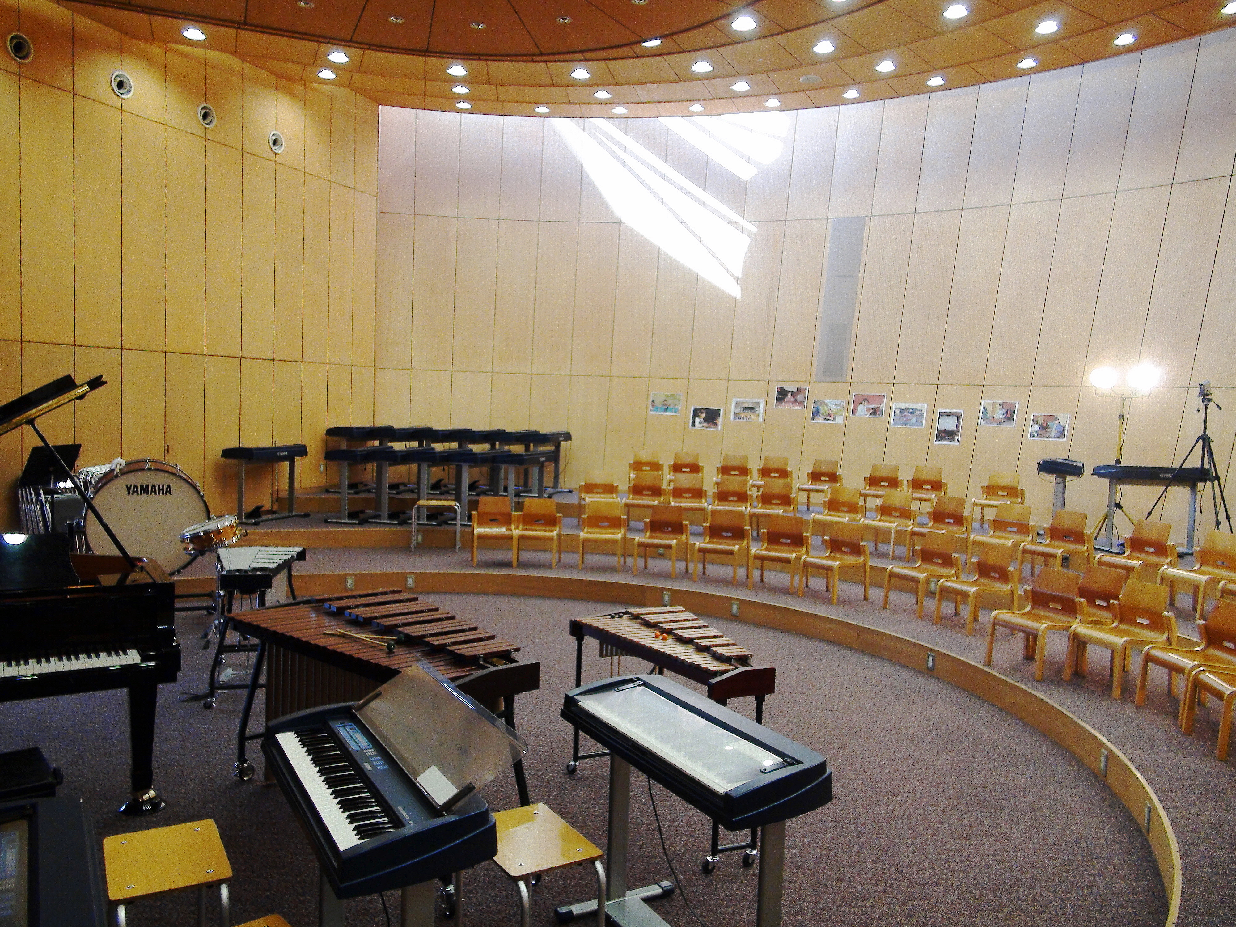 Yamanashigakuin elementary school Music Room （Because it was a school festival, I can photograph it after a security check）